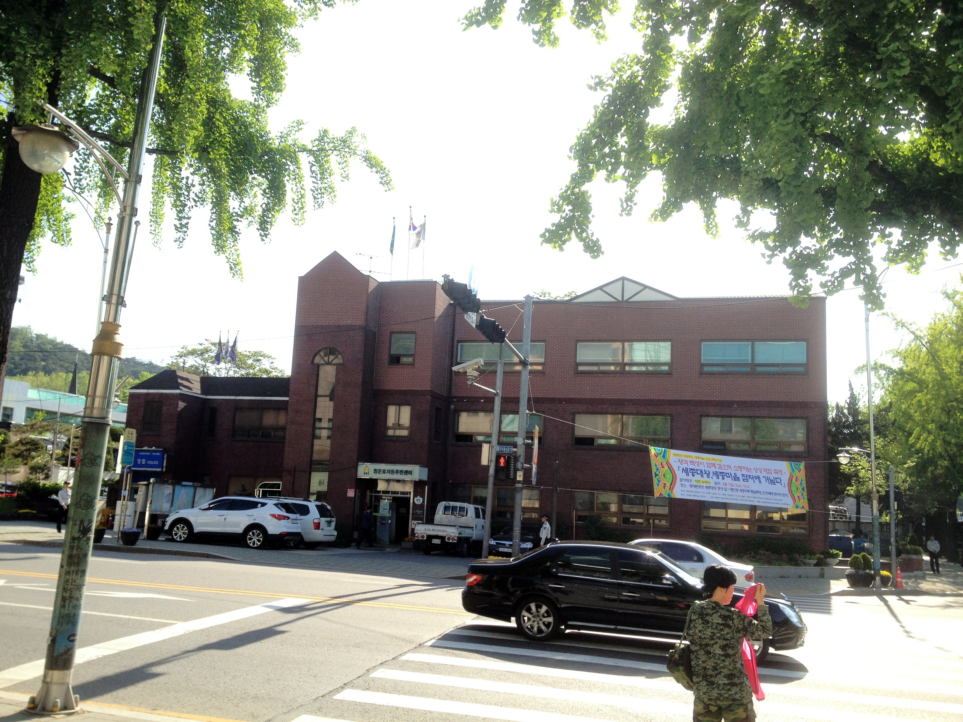 Cheongunhyoja-dong Comunity Service Center(Jongno-gu)